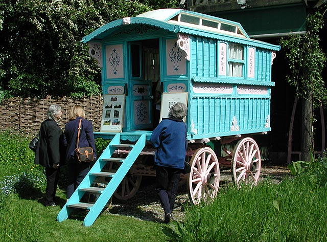 Roald Dahl's gipsy caravan. At Roald Dahl's house, Gipsy Cottage, in Great Missenden. Roald Dahl's gipsy caravan immortalized in "Danny the Champion of the World".